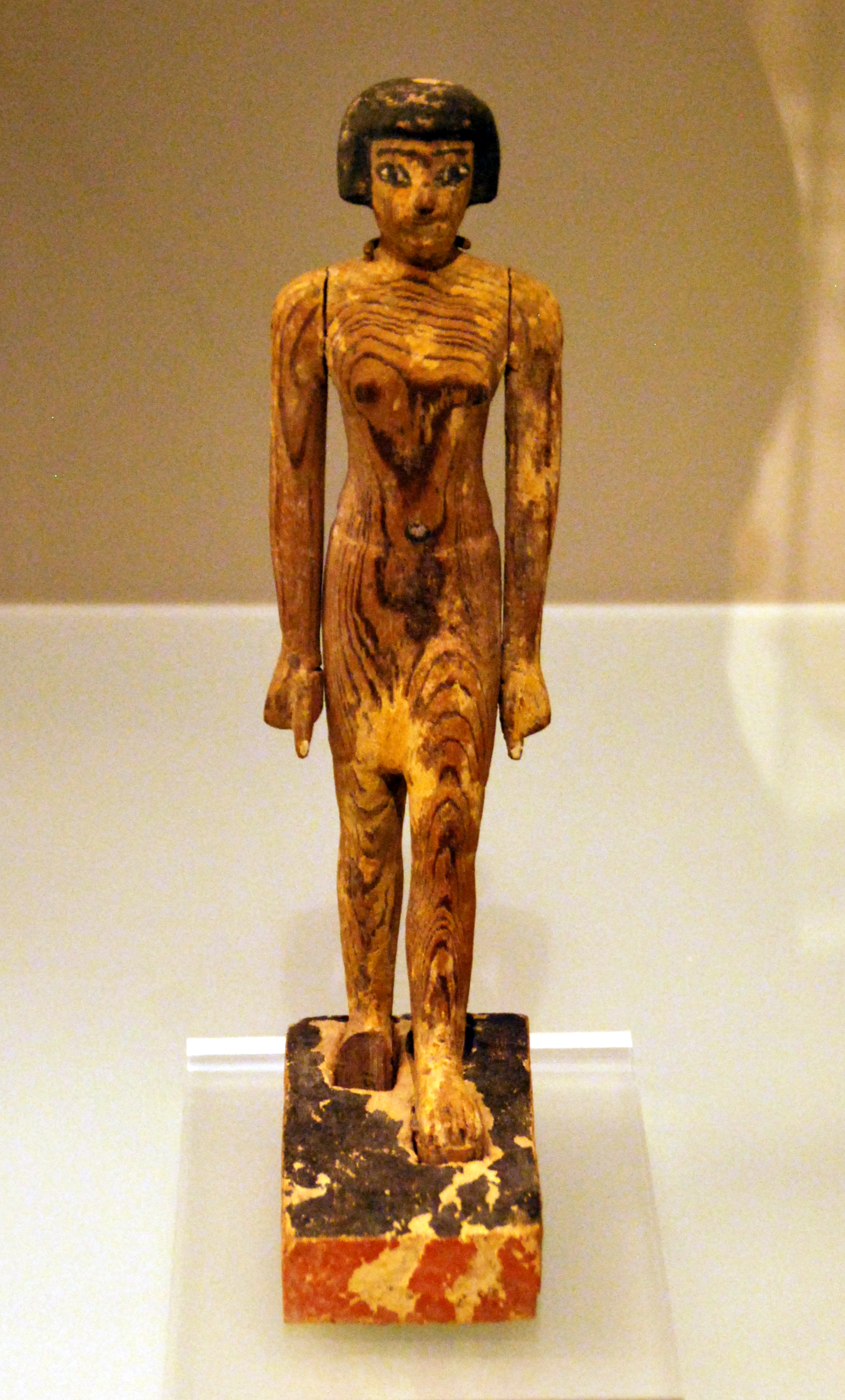 Djehutynakht is believed to have been a Nomarch or Governor of Hermopolis during Egypt's Middle Kingdom period around the late 11th to early 12th dynasty.[1] He and his unnamed wife was buried in tomb 10a at an area known as Deir el-Bersha along with the largest collection of funerary models ever found in Egypt such as 55 model boats for the tomb owners to enjoy in the afterlife.